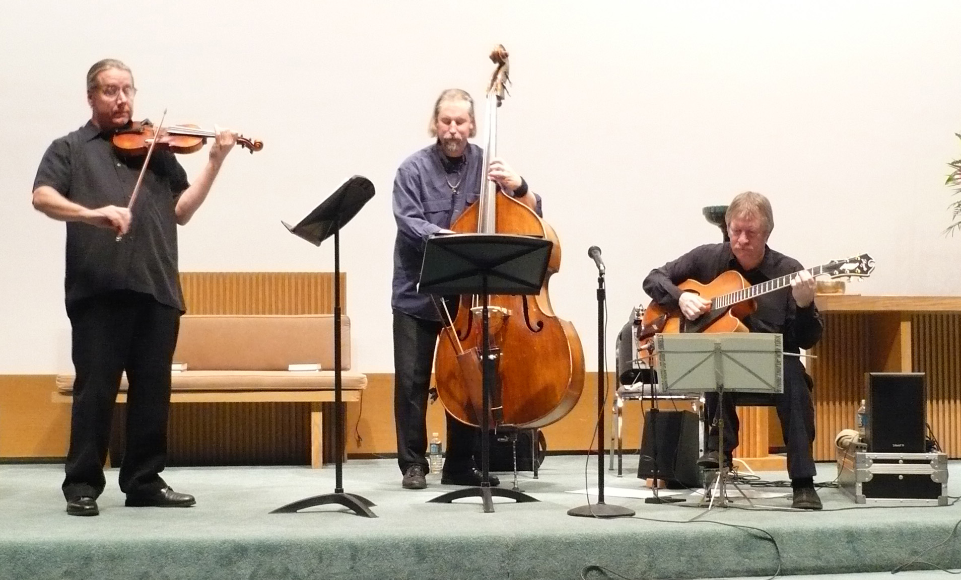 String Trio of New York (from left to right: Rob Thomas, violin; John Lindberg, double bass; and James Emery, steel-string acoustic/electric guitar). Photo taken at a concert at the West Shore Unitarian Universalist Church in Rocky River, Ohio, United States (a suburb of Cleveland), for the first performance in the Rocky River Chamber Music Society's 50th anniversary concert series. Emery is originally from the Cleveland, Ohio area but this was the first-ever performance of the String Trio of New York in Cleveland.